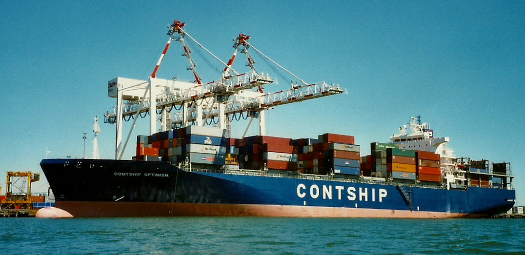 Container Ship Contship Optimism, Port of Melbourne